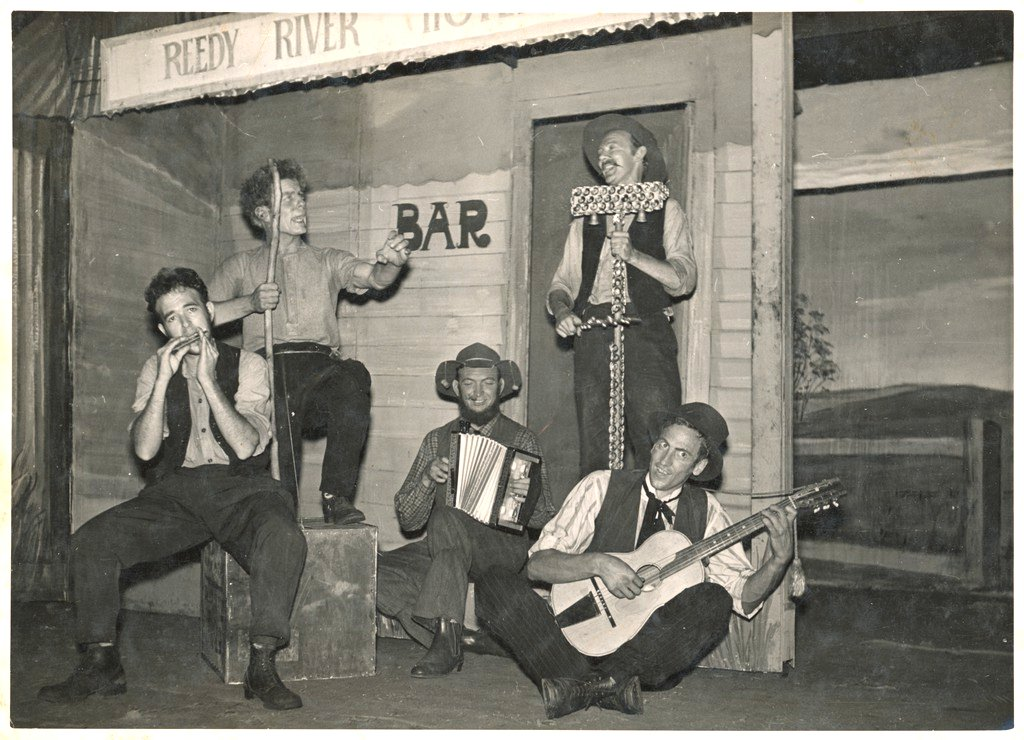 Parker, J. C Condition: Good/fair, some creases.; Title supplied by donor.; "J.C. Parker. The Bushwhackers in Reedy River 1953-1954"--Handwritten on verso.; Also available in an electronic version via the Internet at: .au/nla.pic-an24377447. Scene from "Reedy River". Left to right: Harry Kay, Cecil Grivas, John Meredith, Brian Loughlin, Chris Kempster. Persistent URL .au/nla.pic-an24377447